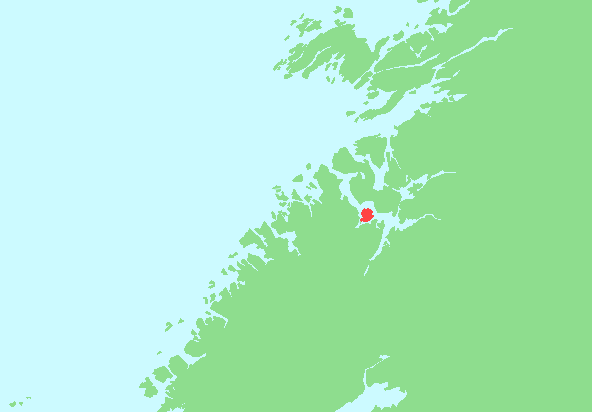 Locator map of Hoddøya, Nord-Trøndelag, Norway